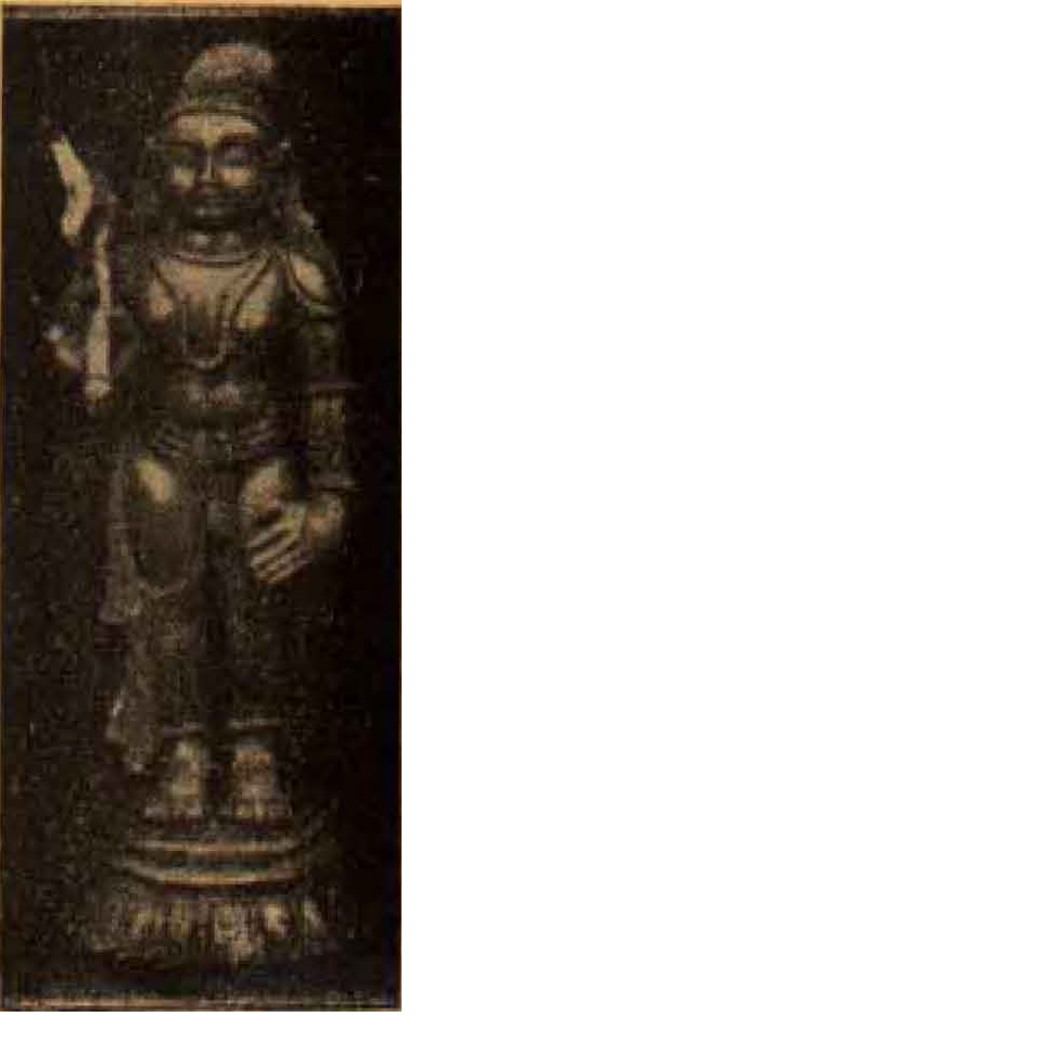 చీరాలదేవుడు